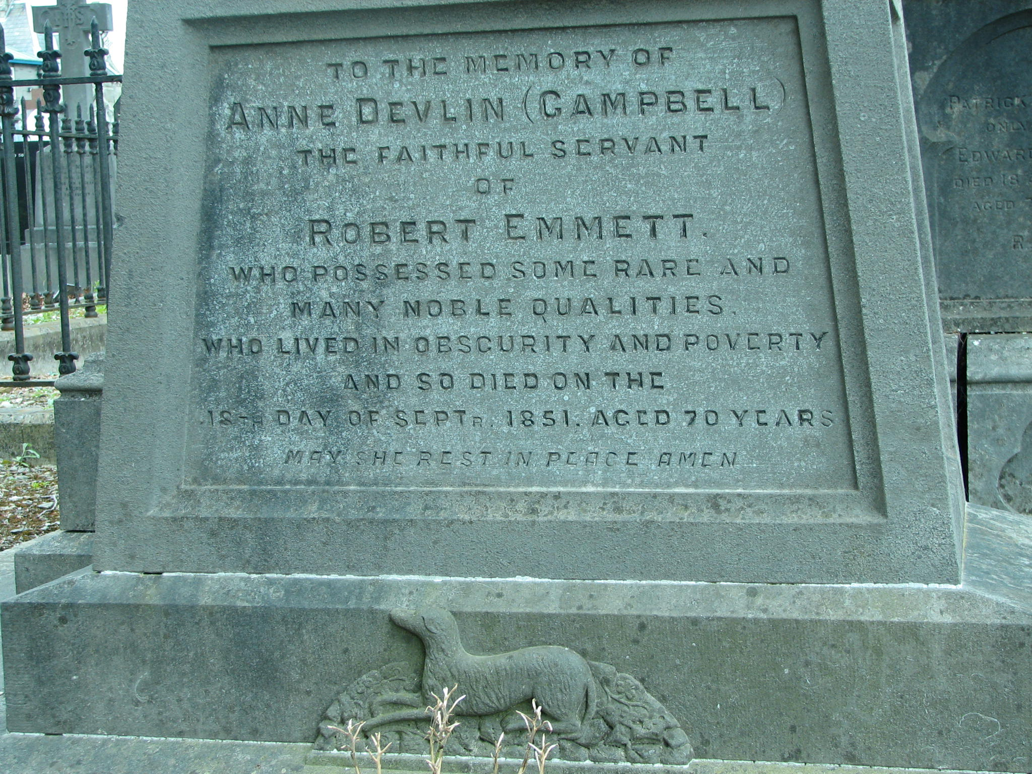 Anne Devlin (c. 1780-1851) was housekeeper to Robert Emmet and cousin to two leading United Irish rebels, Michael Dwyer and Arthur Devlin.